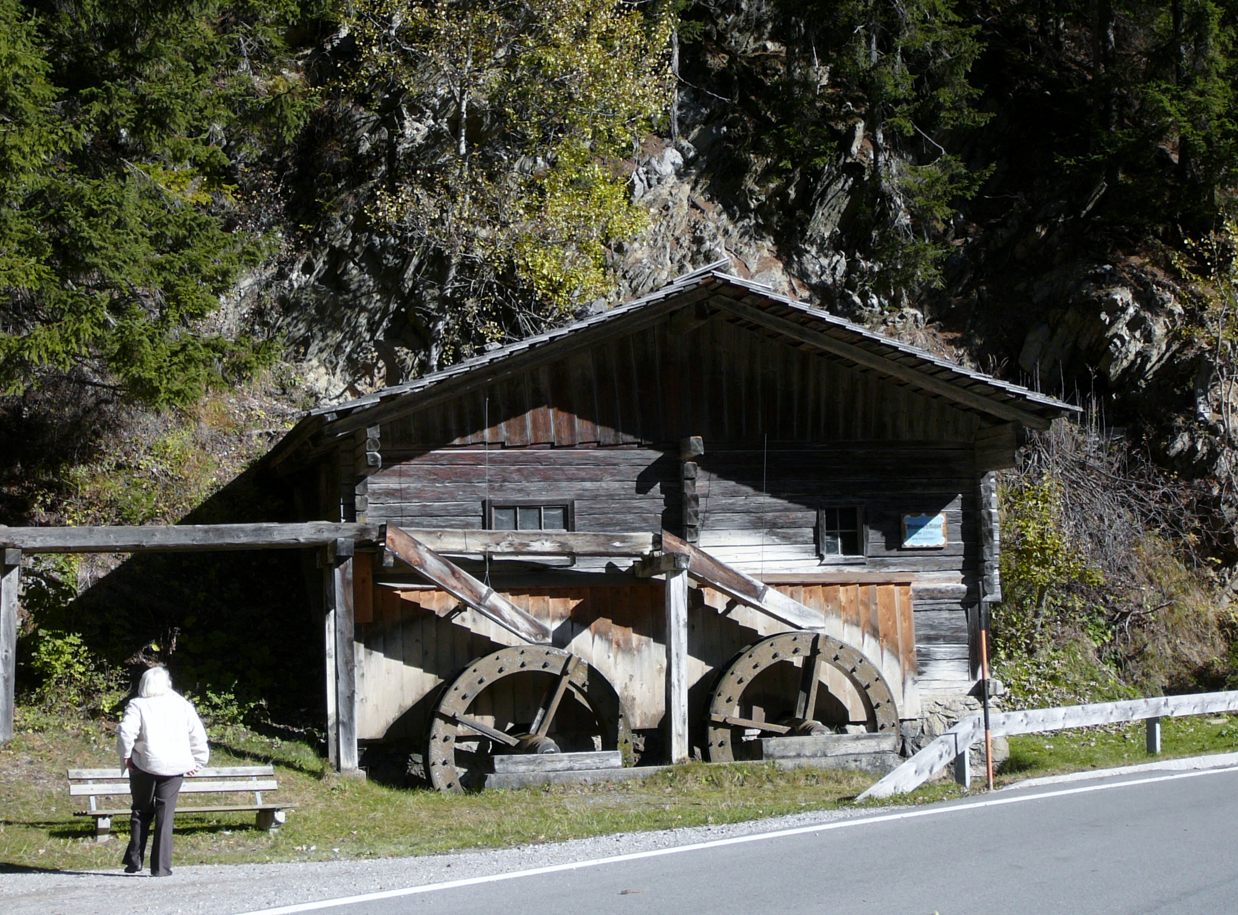 Old mill in Maria Luggau in the community Lesachtal